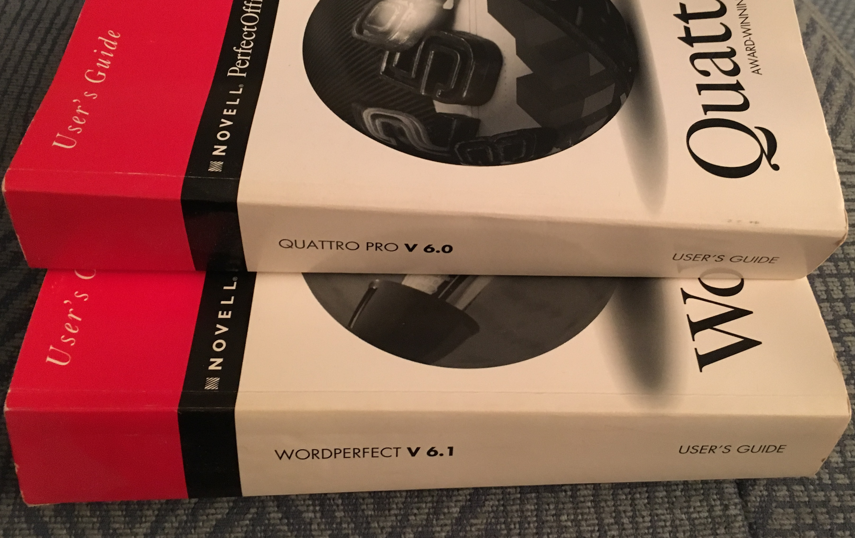 User's Guides for Novell WordPerfect 6.1 for Windows and Quattro Pro 6.0 for Windows, as included in the product box for Novell PerfectOffice 3.0 in 1995.